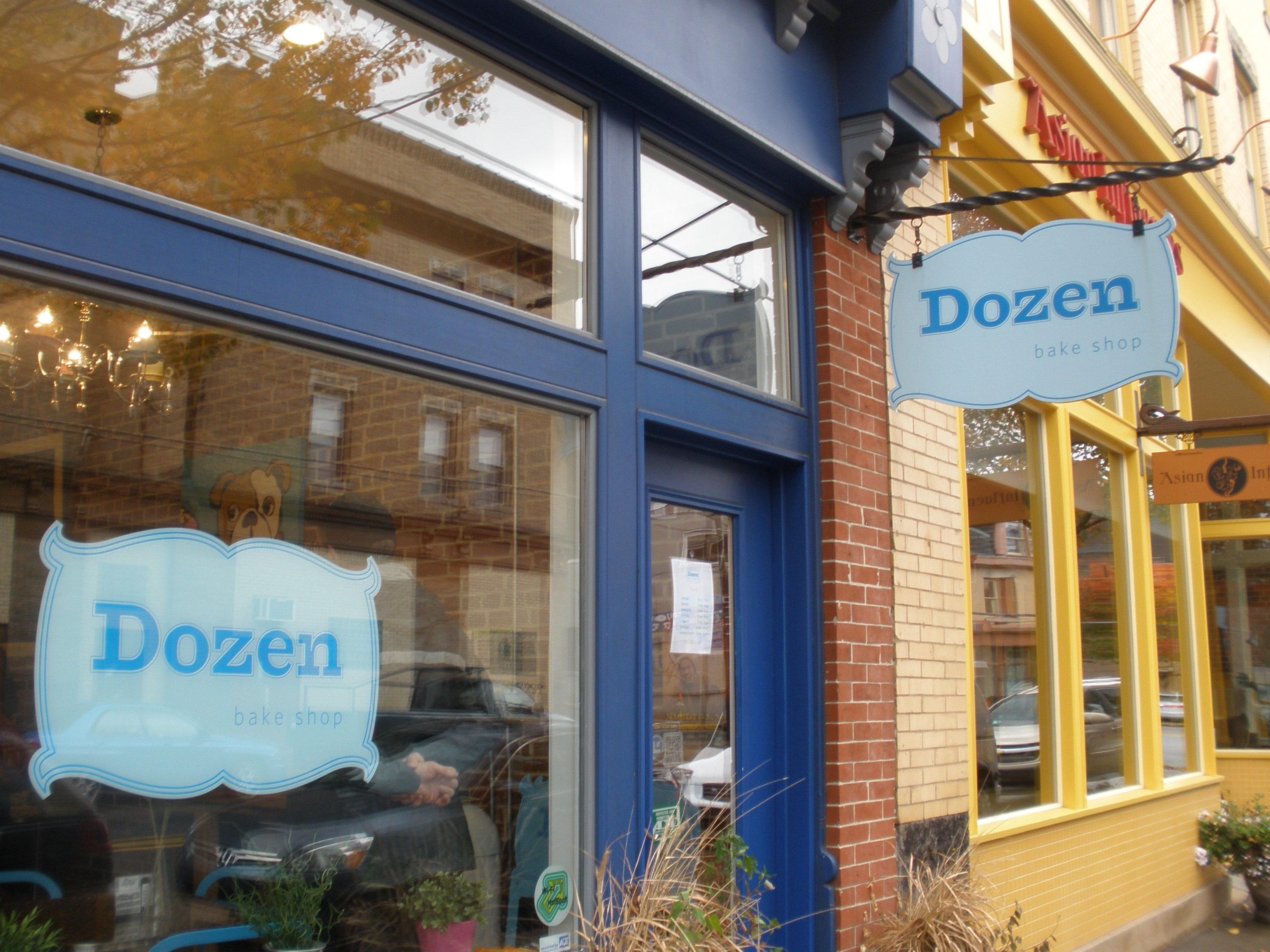 Dozen Bake Shop in Lawrenceville is our second stop on our tour